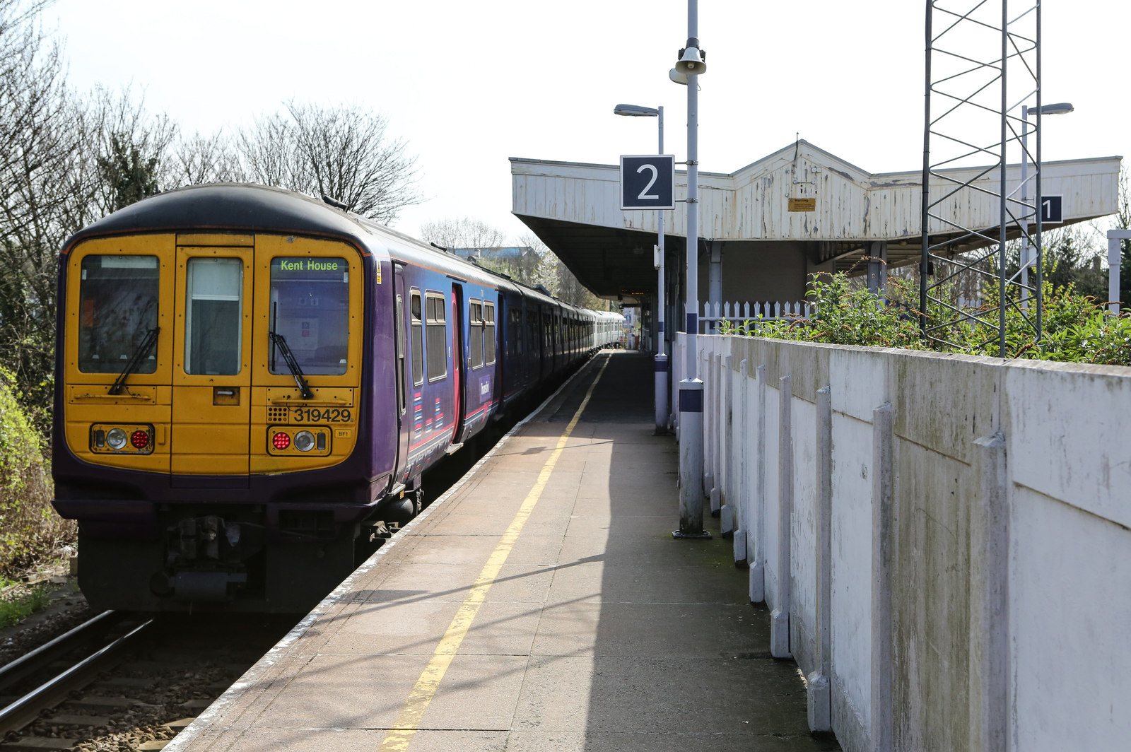 Nunhead Station The station was built by the Southern Railway in 1925 as part of the electrification of the route. It replaced the original Nunhead Junction station which was situated on the opposite side of Gibbon Road. There are some characteristic Southern Railway features on display - the W-shaped platform awning and the concrete fence panels are typical of that railway company. Interestingly, beyond the central area of the station and its awning the platforms are separate - presumably a cost saving measure. The train in the photo is the 10:27 (2E25) Thameslink service to Sevenoaks. Formed of two Class 319 units (319429 closest to camera) it departed West Hampstead Thameslink at 09:50 and is due in Sevenoaks at 11:13.